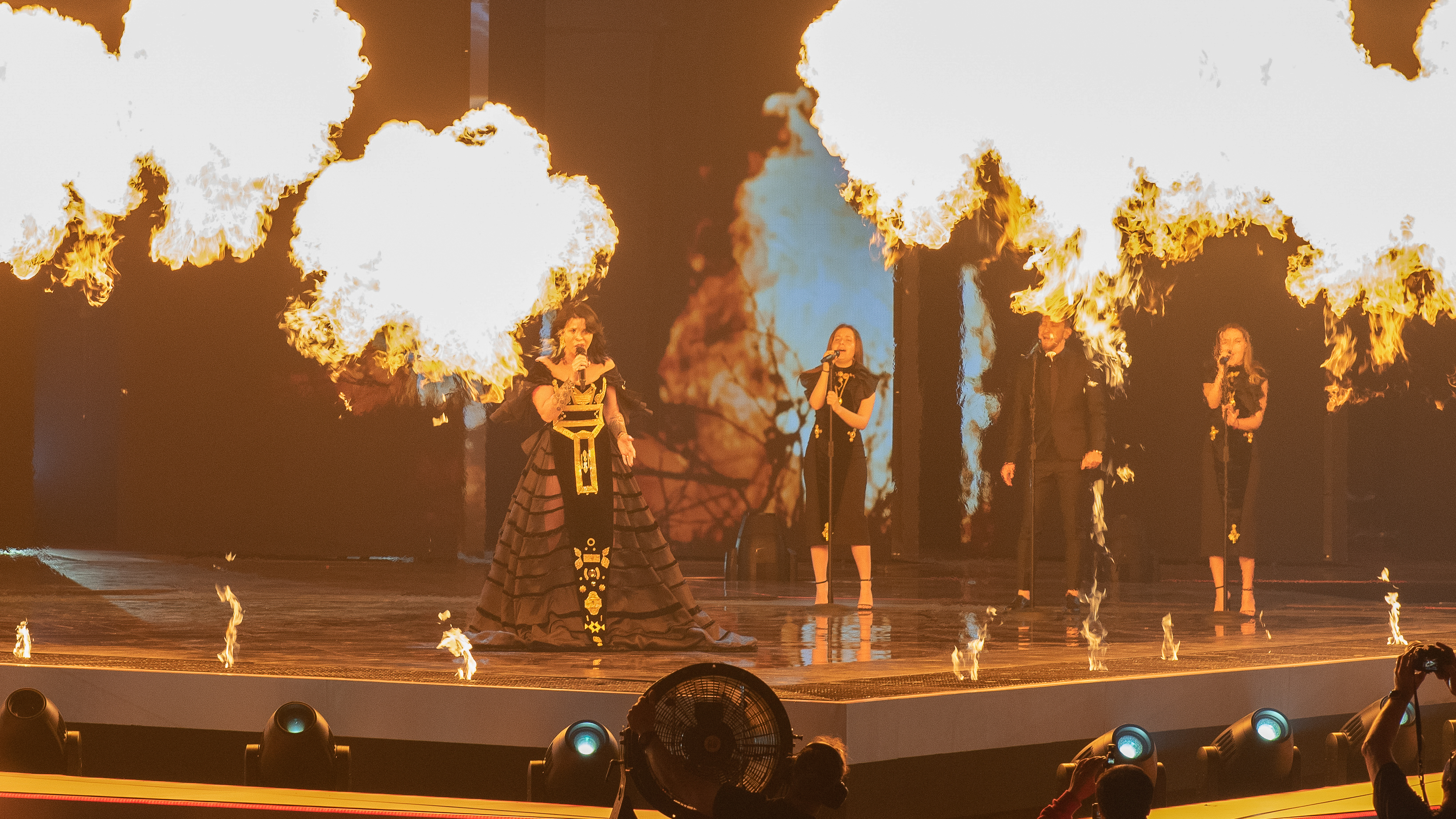 Jonida Maliqi, at the 2019 Eurovision Song Contest Semi-final 2 dress rehearsal